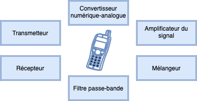 Some radio components of a mobile